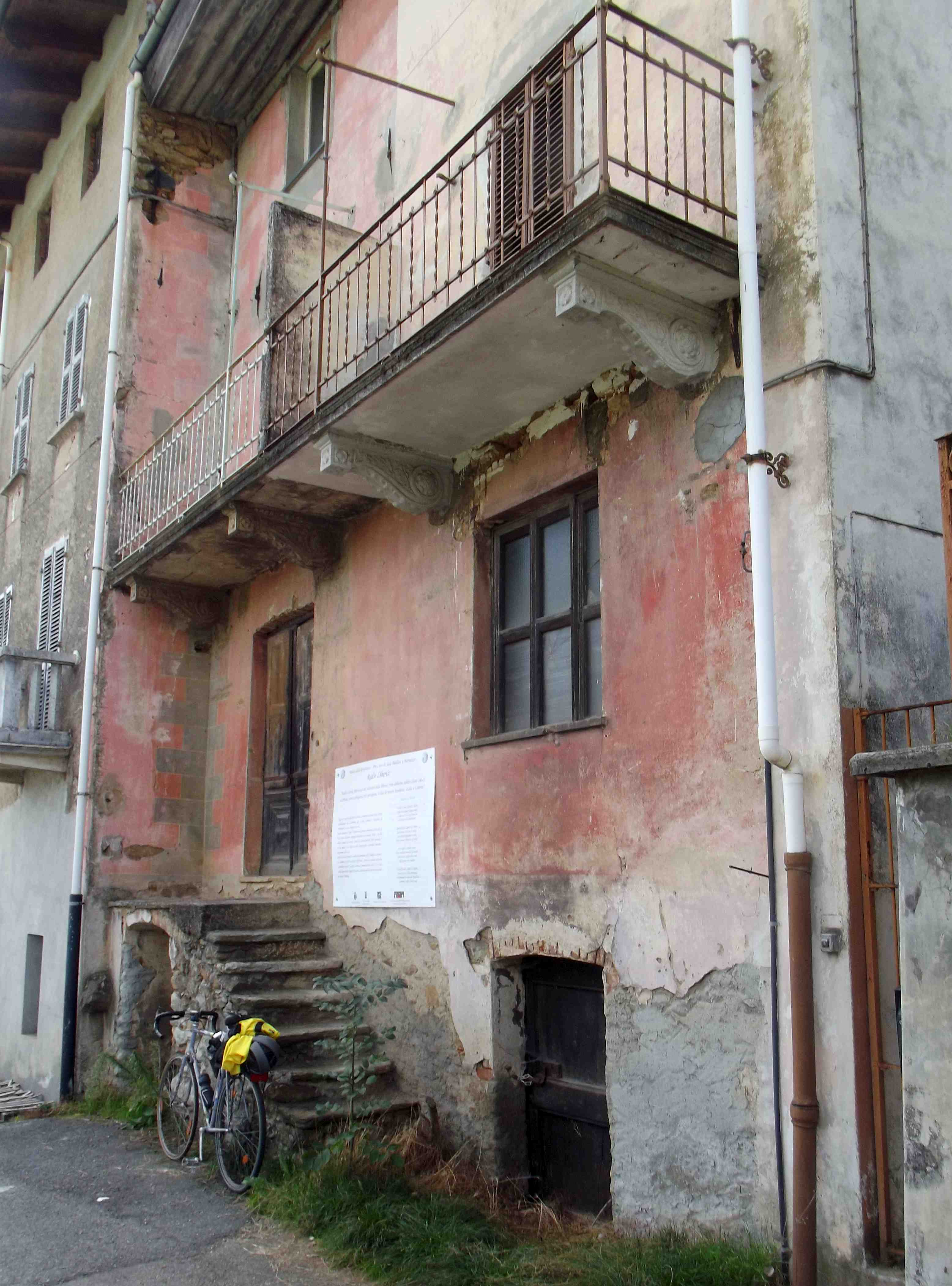 Sala Biellese (BI, Italy): II WWv Radio Libertà broadcasting centre